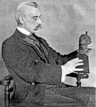 William Anderson (1842-1900)